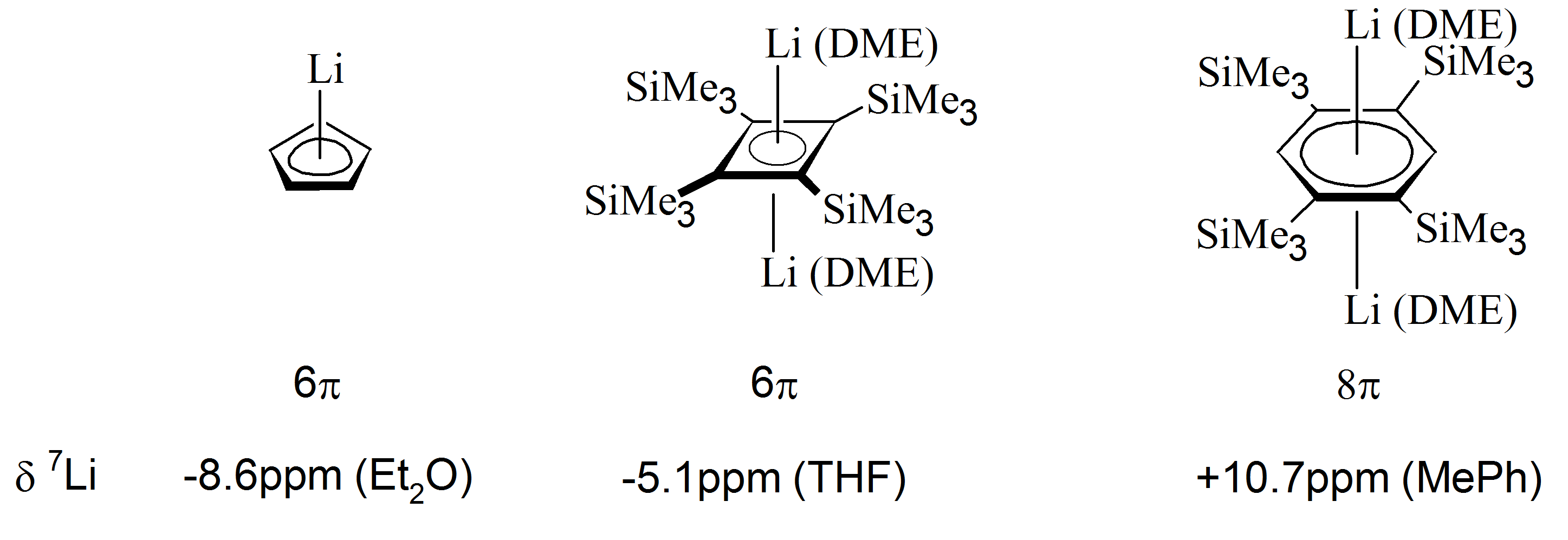 Li NMR of Aromatic and Antiaromatic Anions